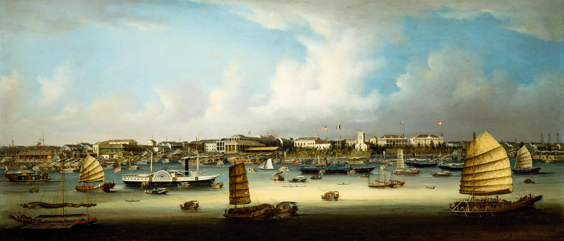 Oil on canvas of the Foreign Factories, Canton, 1850–1855.